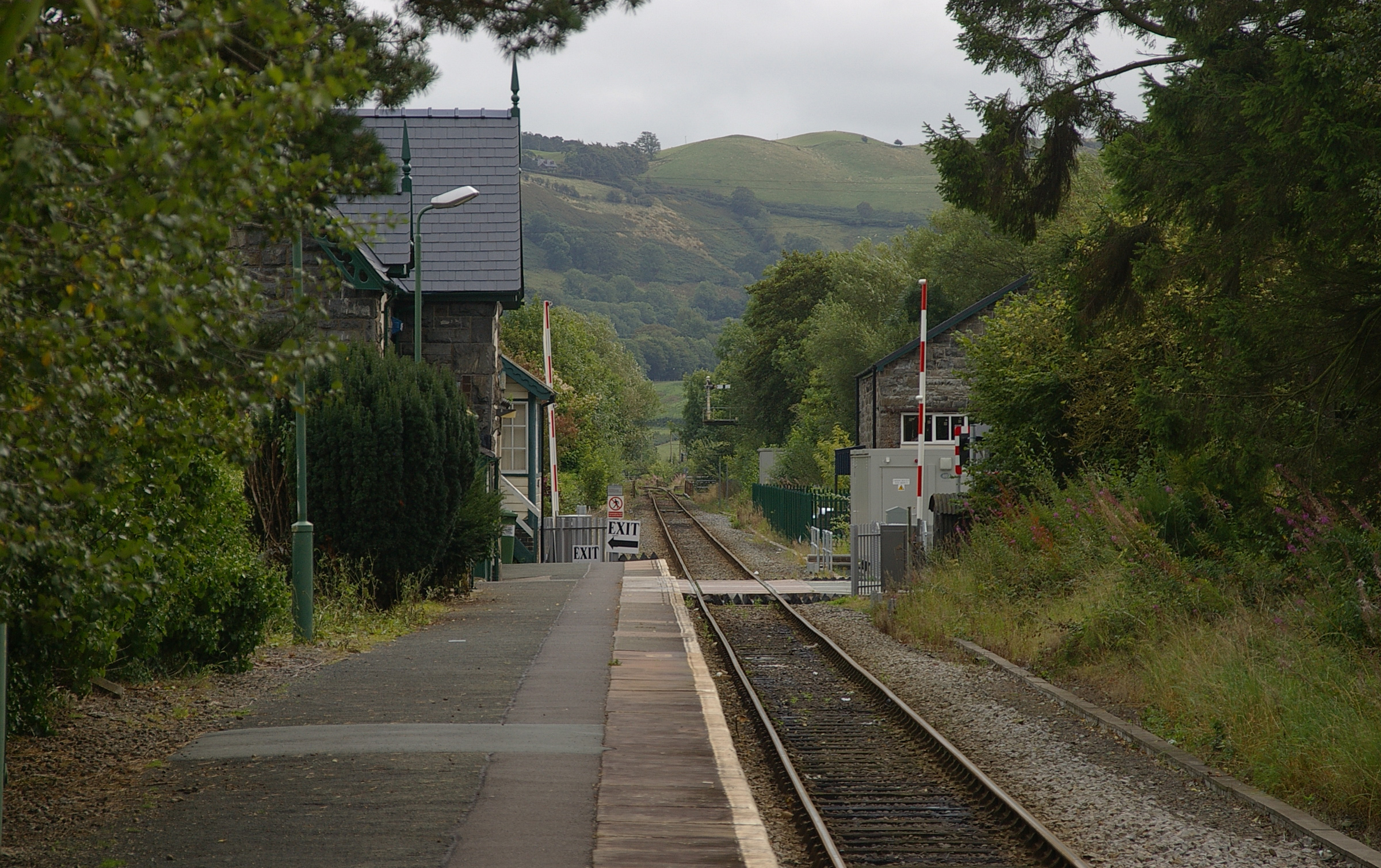 Caersws railway station - looking east.